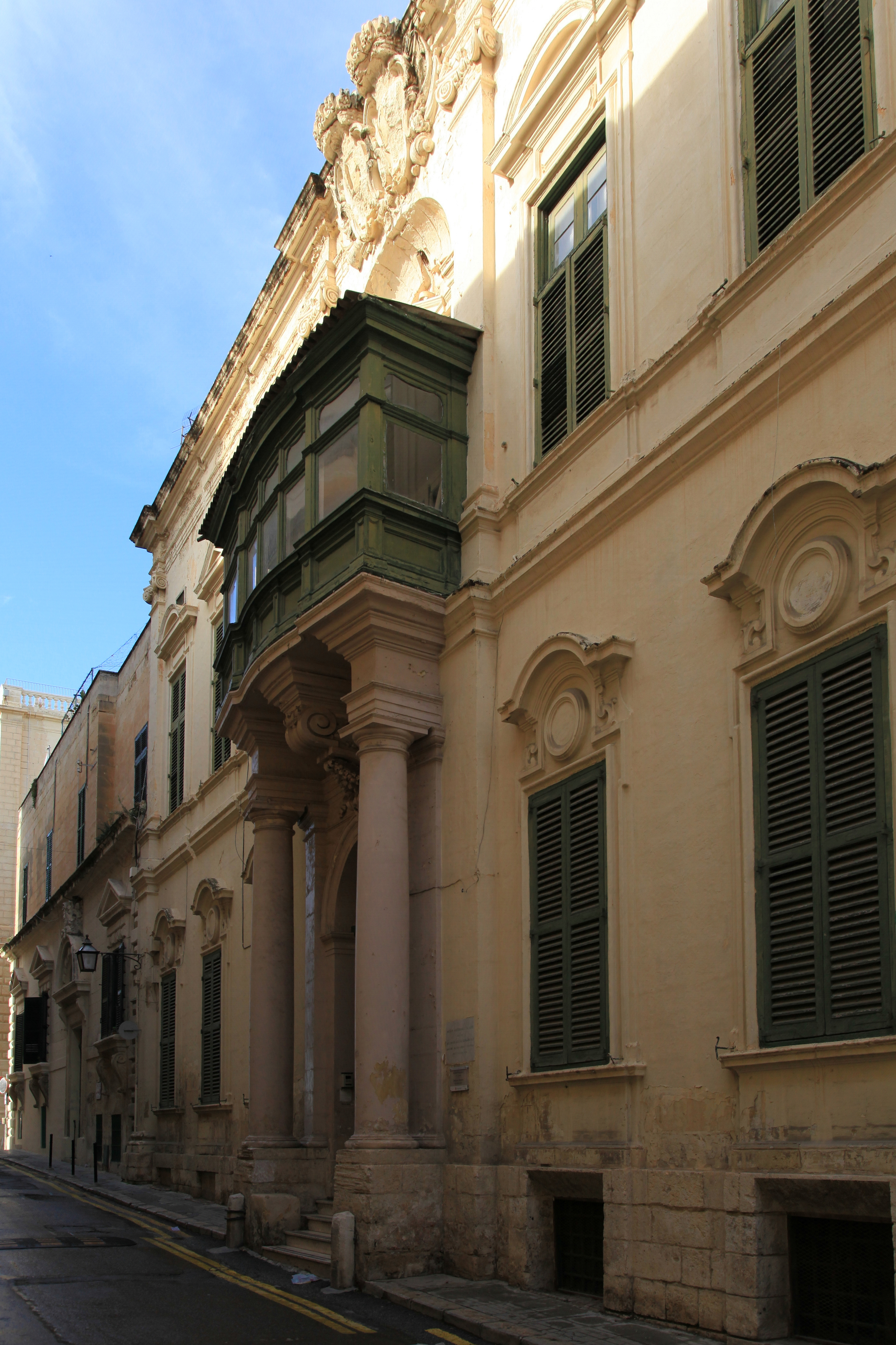 National Museum of Fine Arts, Triq Nofs-in-Nhar in Valletta, Malta